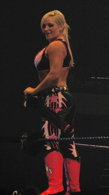 Natalya at a SmackDown house show in August 2010